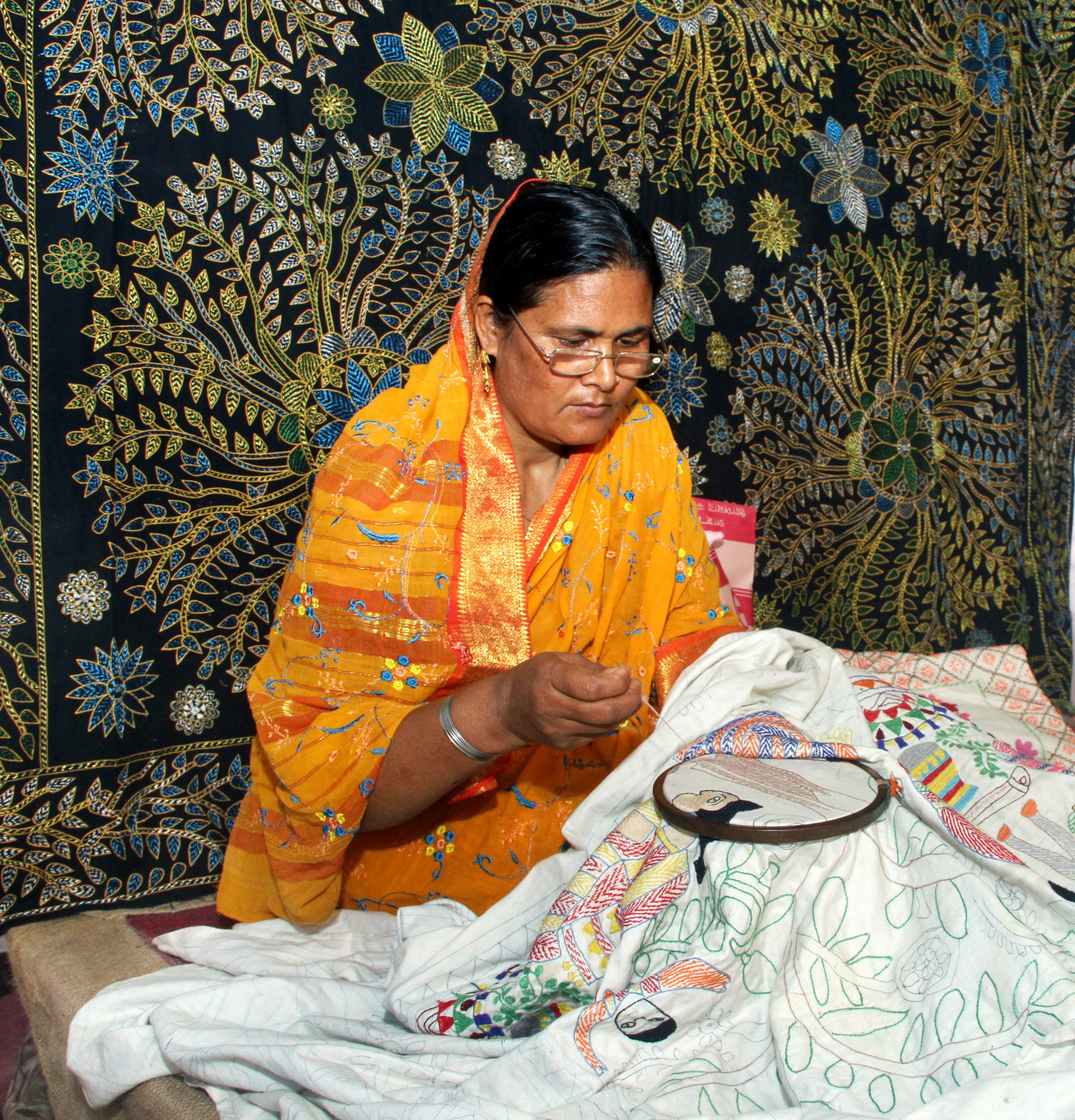 A village woman in Bangladesh stiching a Nakshi Kantha, 2015